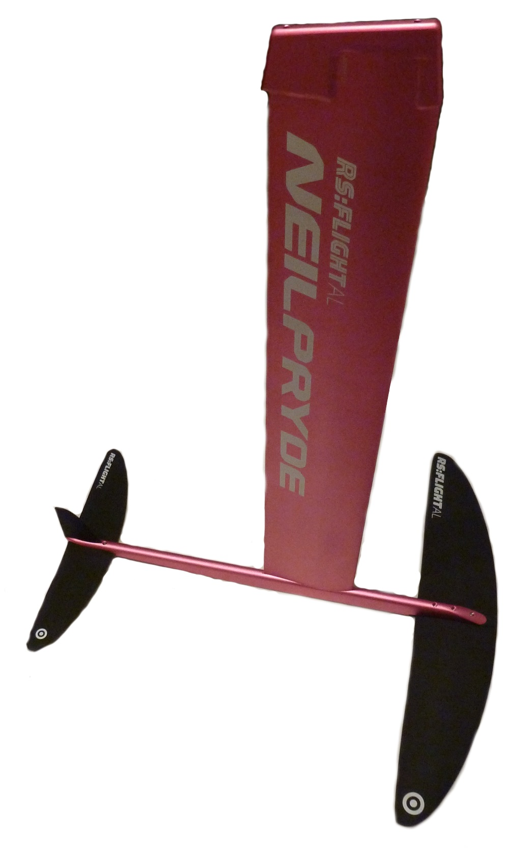 Wind Foil with Deep Tuttle Box